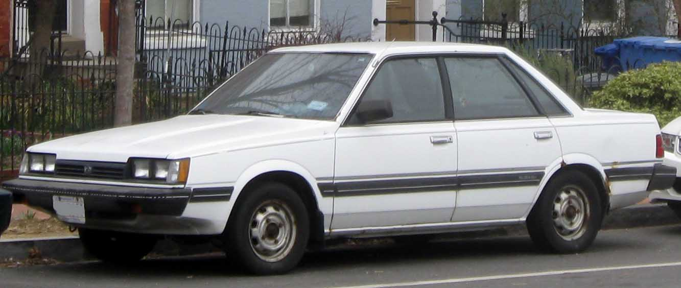 Subaru DL photographed in Washington, D.C., USA.